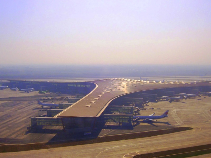 PEK Terminal 3 from air.